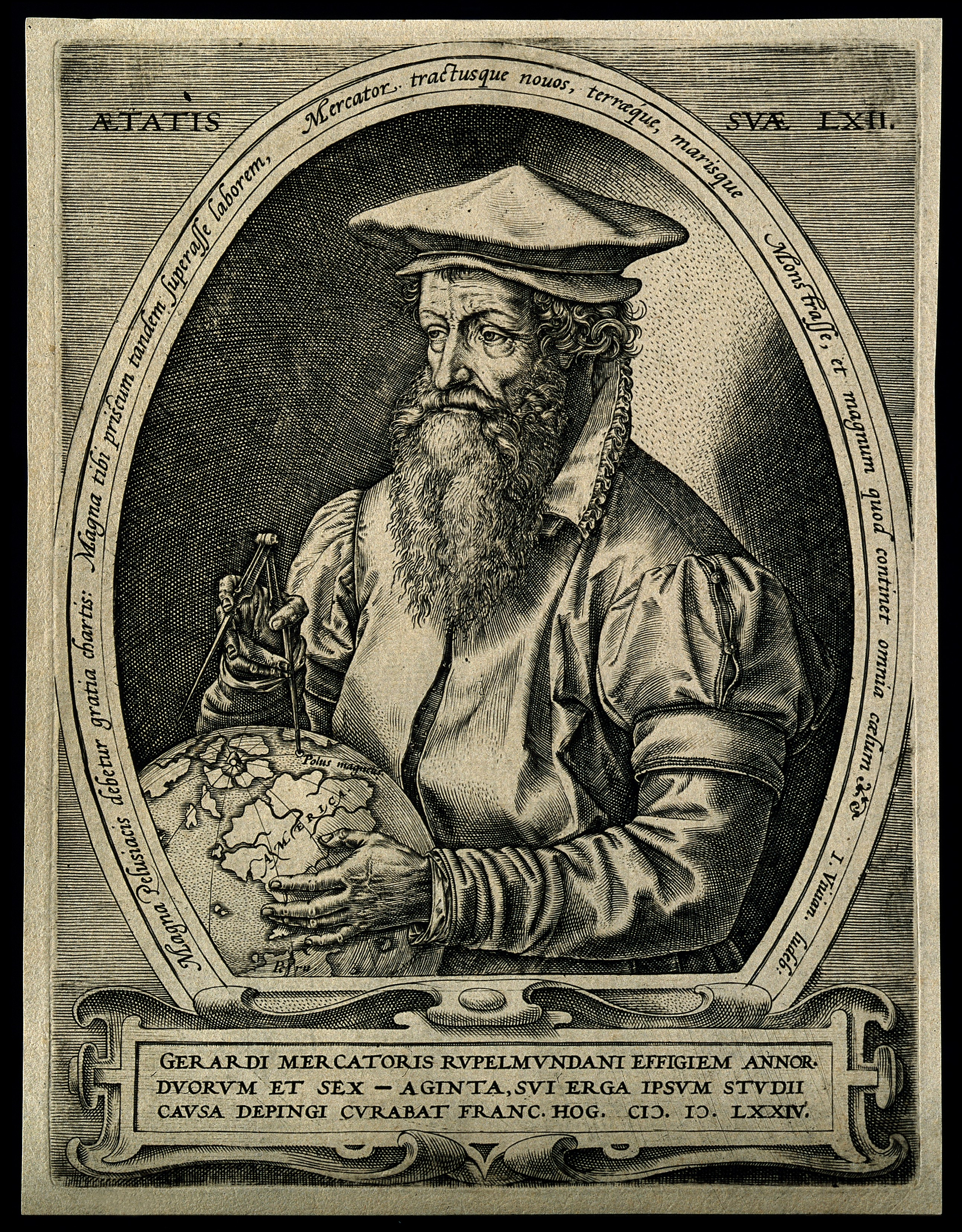 Gerard Mercator [Cremer]. Line engraving by H. Goltzius, 1574. Iconographic Collections Keywords: portrait prints; engravings; Gerard Mercator